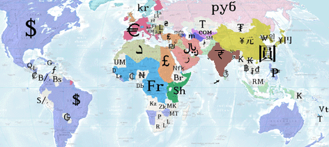 Currencies of the World